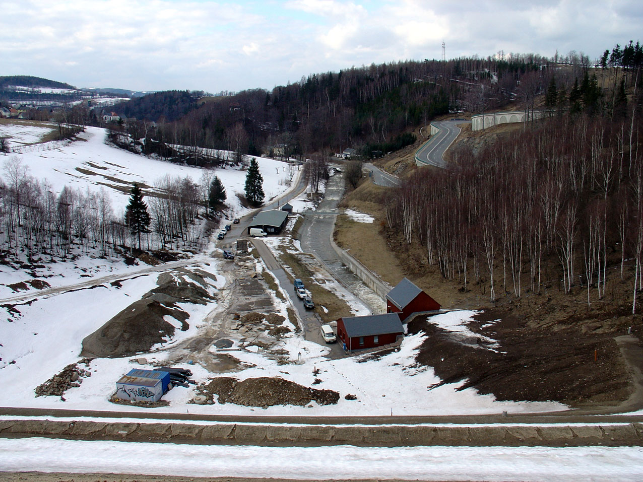 outflow of the Rückhaltebecken Lauenstein